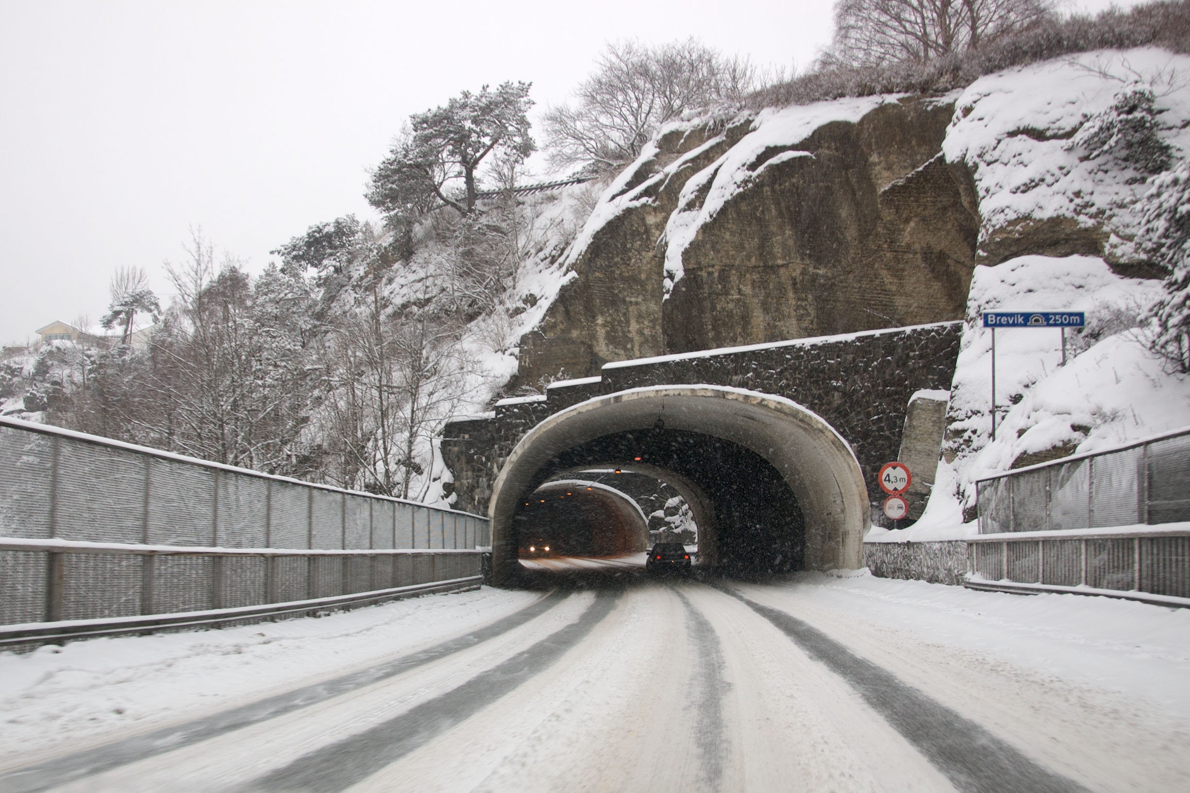 Brevikstunnelen on county road 354, Telemark, Norway.